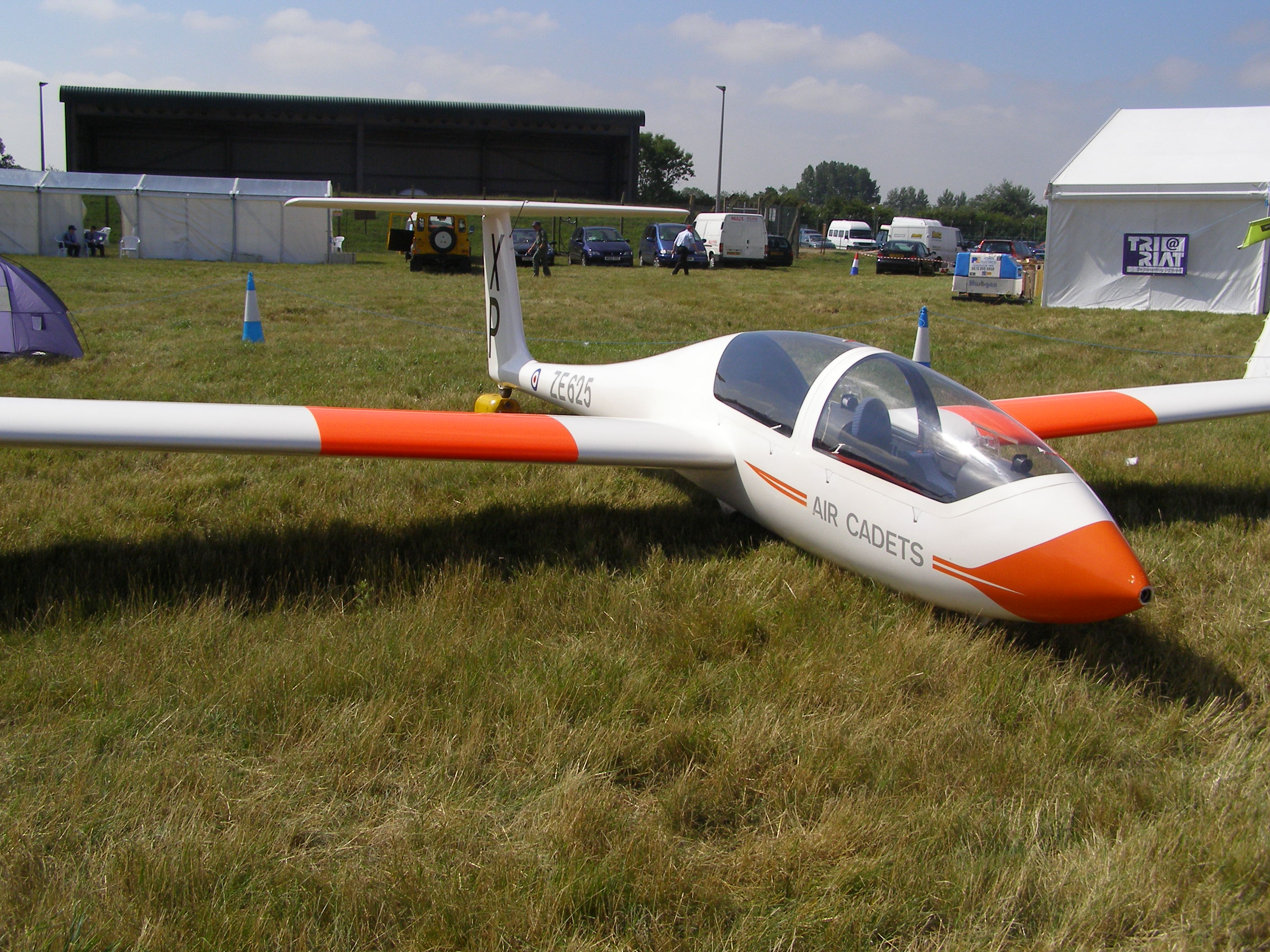 Grob Viking glider serial number ZE625 of the Royal Air Force/Air Cadets at Fairford Royal International Air Tattoo 2006